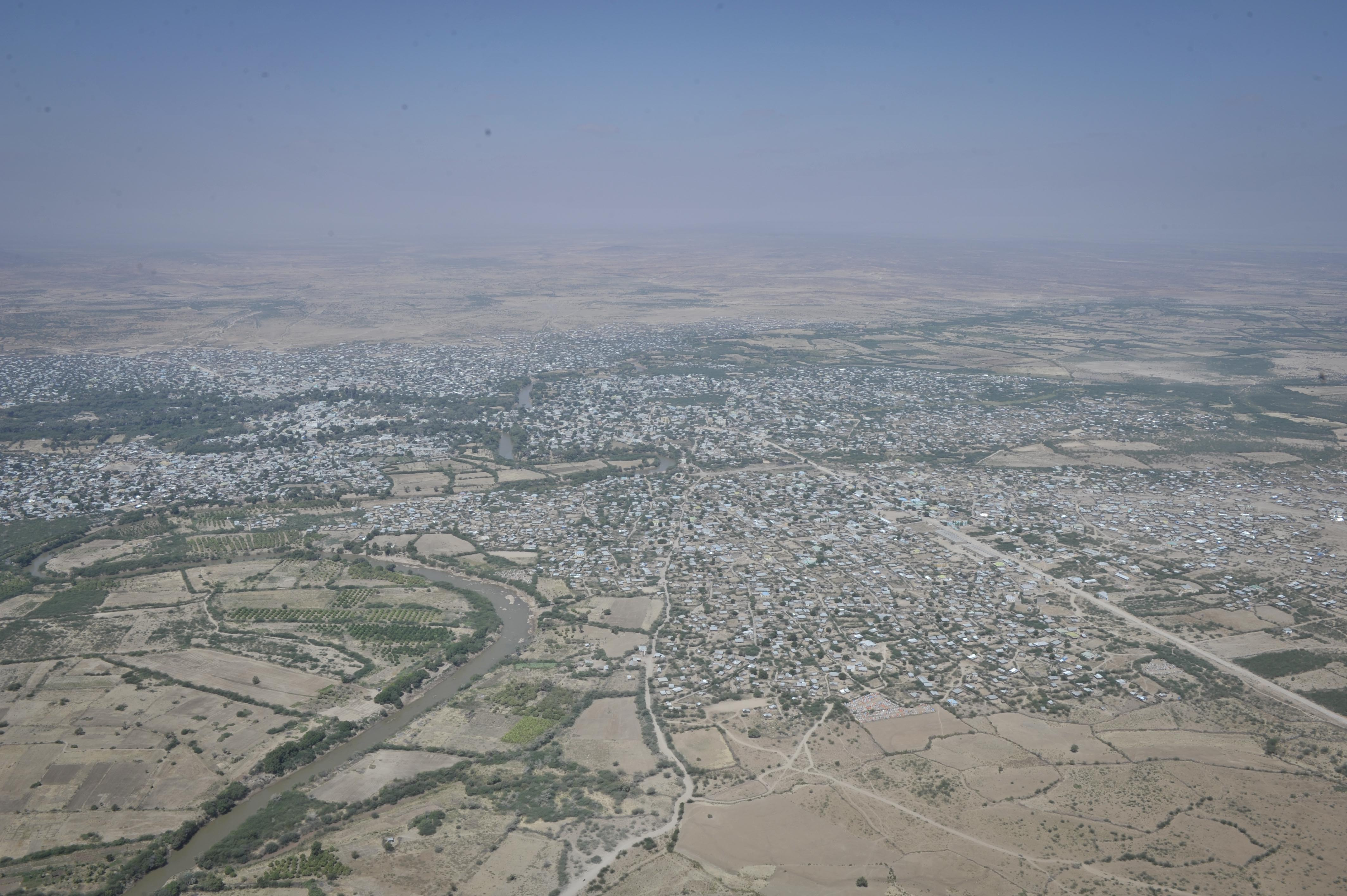 Belet Weyne, Somalia's fifth largest city, is located 315 km from the country's capital Mogadishu. The city was first liberated from the extremist group al Shabab in September 2011 by Ethiopian troops, but was taken over by the Djiboutian contingent of the African Union Mission in Somalia (AMISOM) in September 2012. AU UN IST PHOTO / TOBIN JONES.